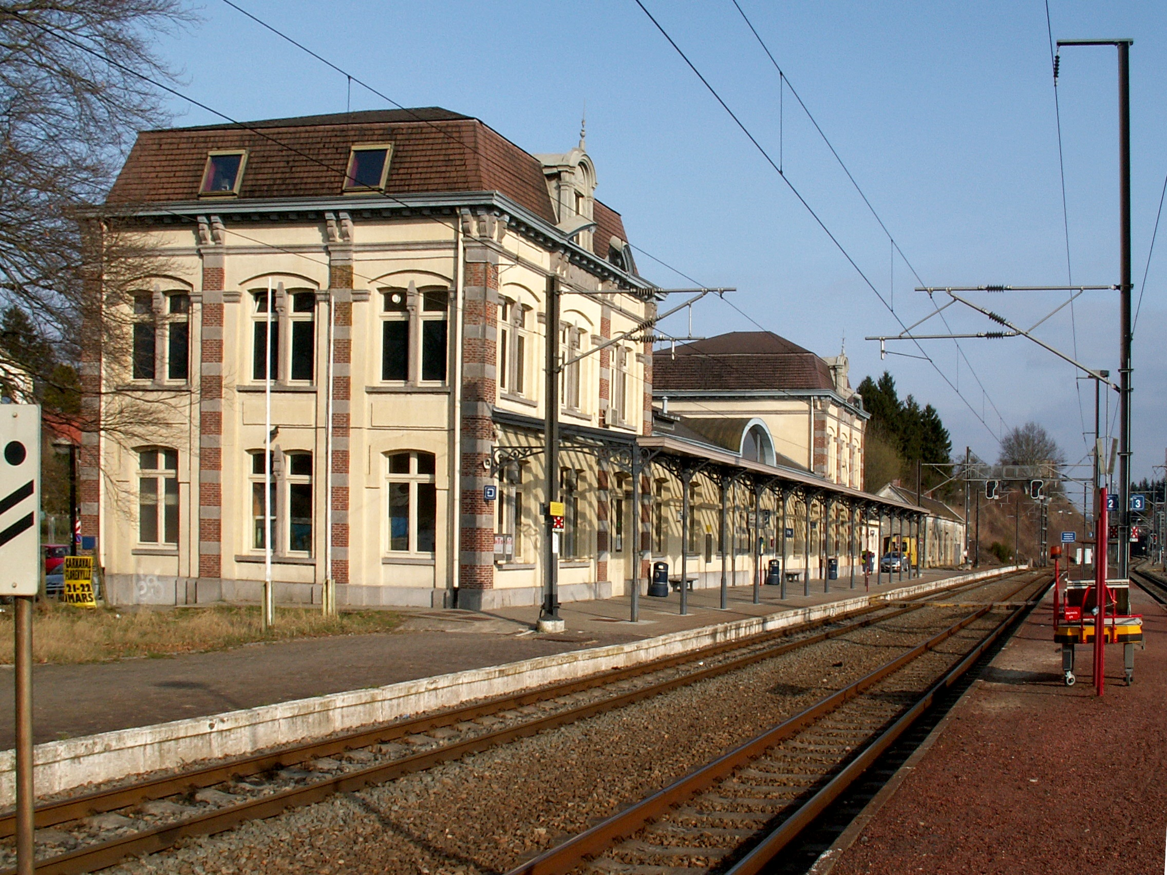 Station of Virton in the south of Belgium, viewed from the tracks. This was in fact the station of a village called Saint-Mard, nearby Virton. Another station exists at Virton, more centered but laid on a secondary line, now dismantled (numbre 155 of the Belgian Railways). Station Saint-Mard was formerly a junction station (between lines 165 and 155). As of 2009, Virton offers a two hours local trains schedule between Libramont and Arlon, via Bertrix and the Luxemburgish station of Rodange. During the weekend, those train only run between Libramont and Virton. During the week, a peak hours service offers some trains between Virton and Luxemburg to commuters.